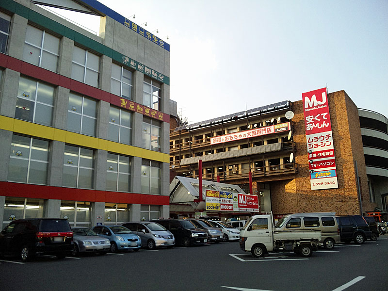 Murauchi Joshin, an electric appliance store, Hachioji, Tokyo, Japan